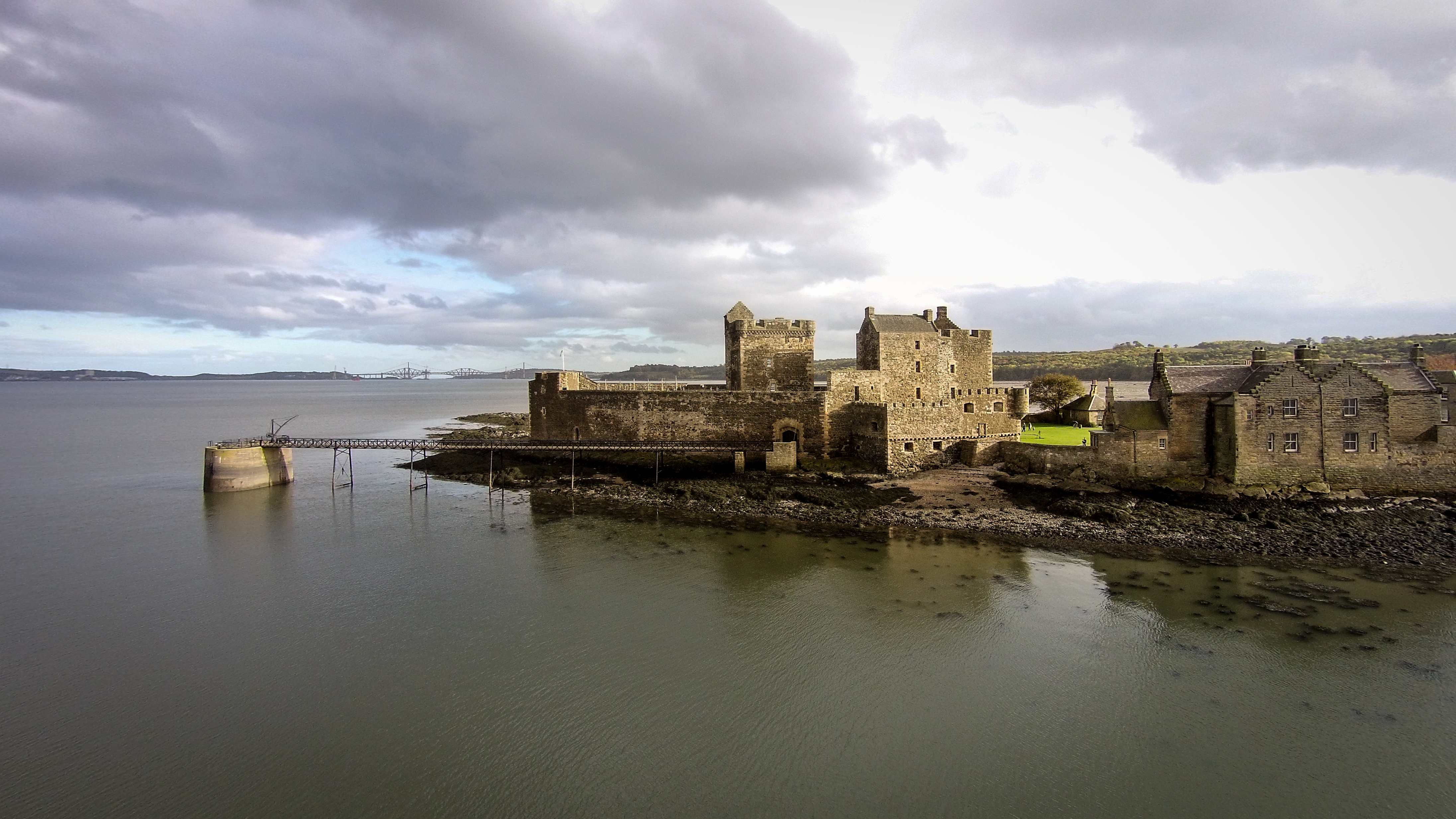 Blackness Castle with the Forth bridges in the background.